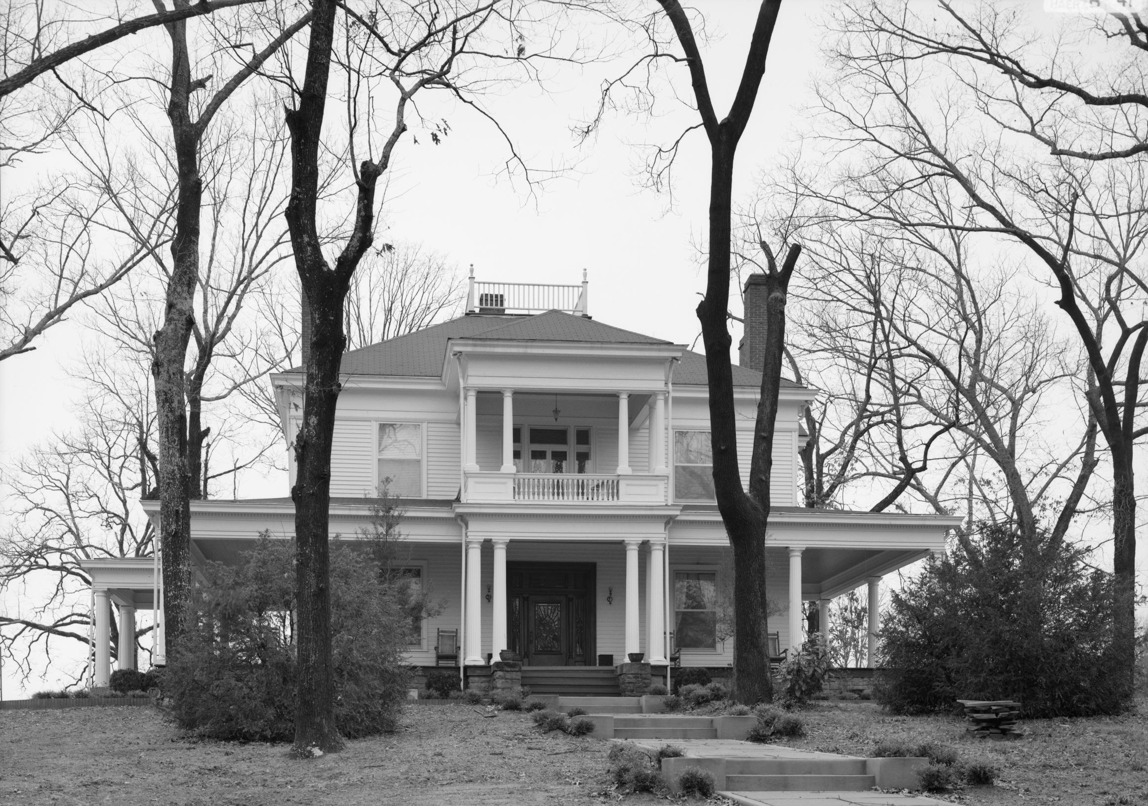 John Hollis Bankhead House, 1400 Seventh Avenue, Jasper, Walker County, AL. EXTERIOR VIEW FRONT (EAST) FACADE.